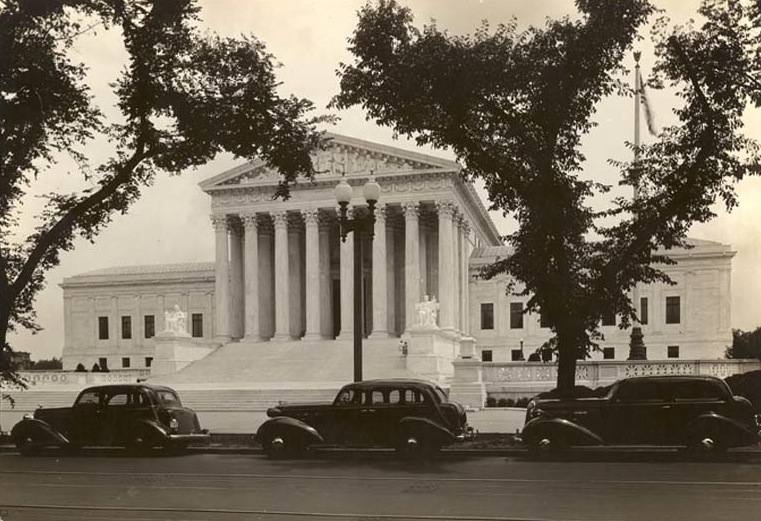 Supreme Court of the United States (circa 1935)